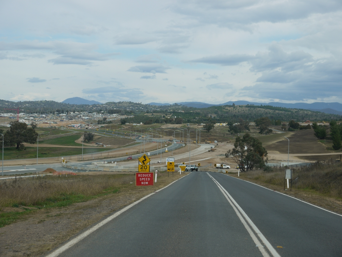 Molonglo Valley - Southern side - Coppins Crossing Rd and John Gorton Drive